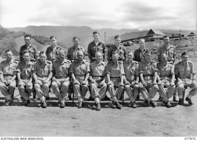 HOLLANDIA, DUTCH NEW GUINEA. 1944-12-18. GROUP PORTRAIT OF PERSONNEL OF ADVANCED LAND HEADQUARTERS, AUSTRALIAN MILITARY FORCES. FRONT ROW, LEFT TO RIGHT: QX42381 CAPTAIN (CAPT) J. C. CARTER; VX108276 CAPT W. R. A. PARCELL (SIGS); NX107 MAJOR (MAJ) E. A. WOOD; VX26 LIEUTENANT COLONEL (LT COL) J. S. ANDERSEN; NX34984 BRIGADIER (BRIG) K. D. CHALMERS; DX200 BRIG L. C. LUCAS DSO MC VD; VX16146 COLONEL L. FITZGERALD (SURVEY); NX160007 LT COL E. F. LITTLE (SIGS); NX3628 CAPT J. M. SPRY; NX56444 MAJ R. E. PLAYFORD (SURVEY); NX3532 CAPT G. TOPP (SIGS). BACK ROW: QX41402 SERGEANT (SGT) J. A. JAGERNDORFF (SURVEY); VX110686 CORPORAL (CPL) T. WADE (SURVEY); NX147695 CPL B. C. BURNS; ?(SIGS); SX19792 CPL G. F. SMITH (SURVEY); NX87754 STAFF SERGEANT T. R. HARPUR; QX38730 SGT K. A. SUMMONS (SURVEY).